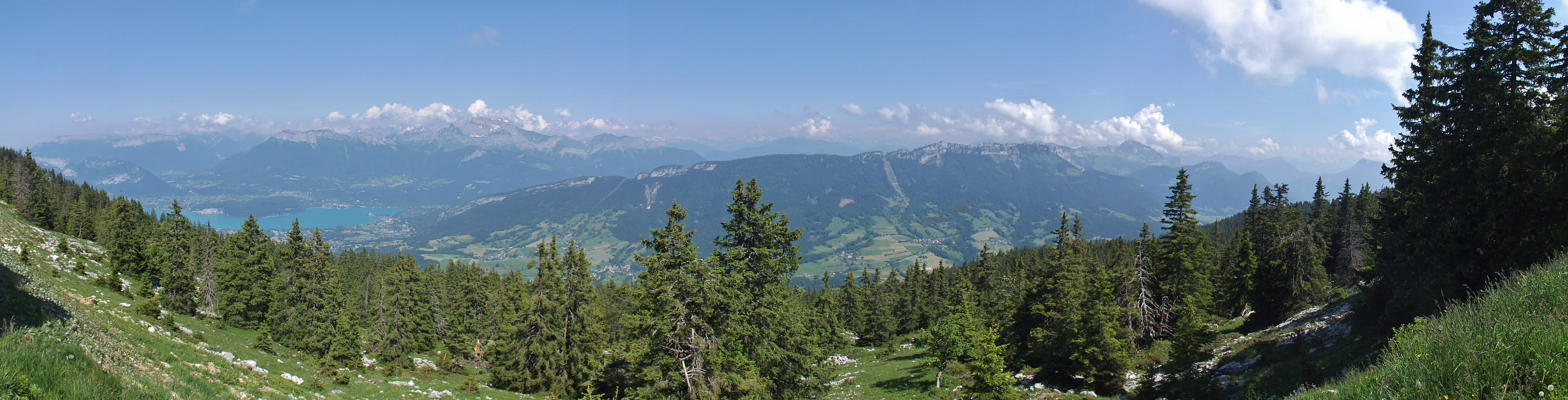 Sight from the Semnoz mount, of the northern part of the massif des Bauges mountains in Haute-Savoie (left) and Savoie (right), with the lac d'Annecy lake, in France.